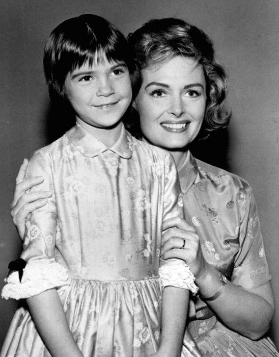 Publicity photo of Patty Petersen and Donna Reed from the television program The Donna Reed Show. Petersen joined the cast in 1963 when Shelley Fabares left the show.